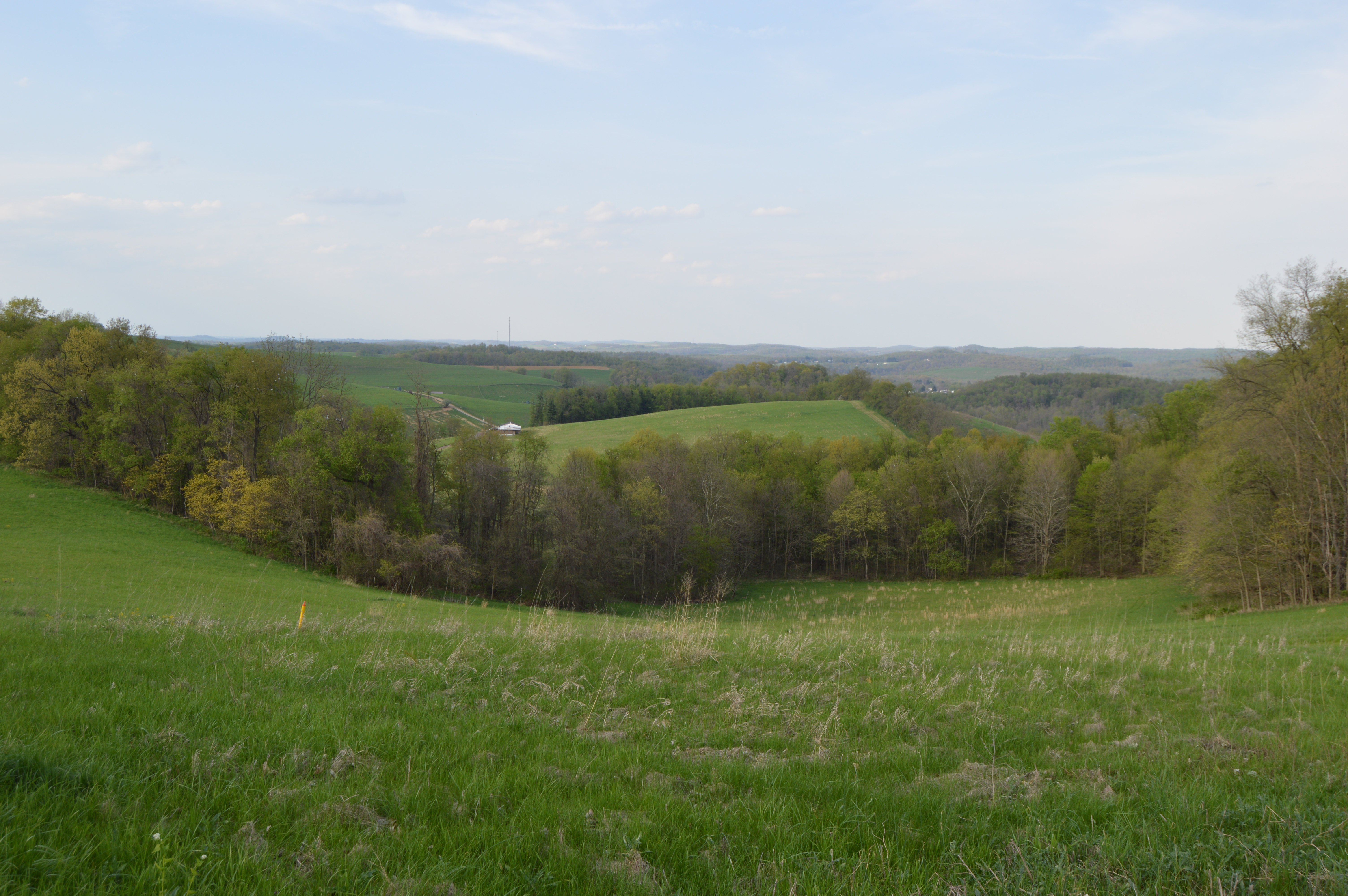 Overview of wooded hills (reclaimed after strip mining) southwest of Perryopolis in Perry Township, Fayette County, Pennsylvania, United States. Photo looks north-northeast from Quaker Church Road at the namesake church.